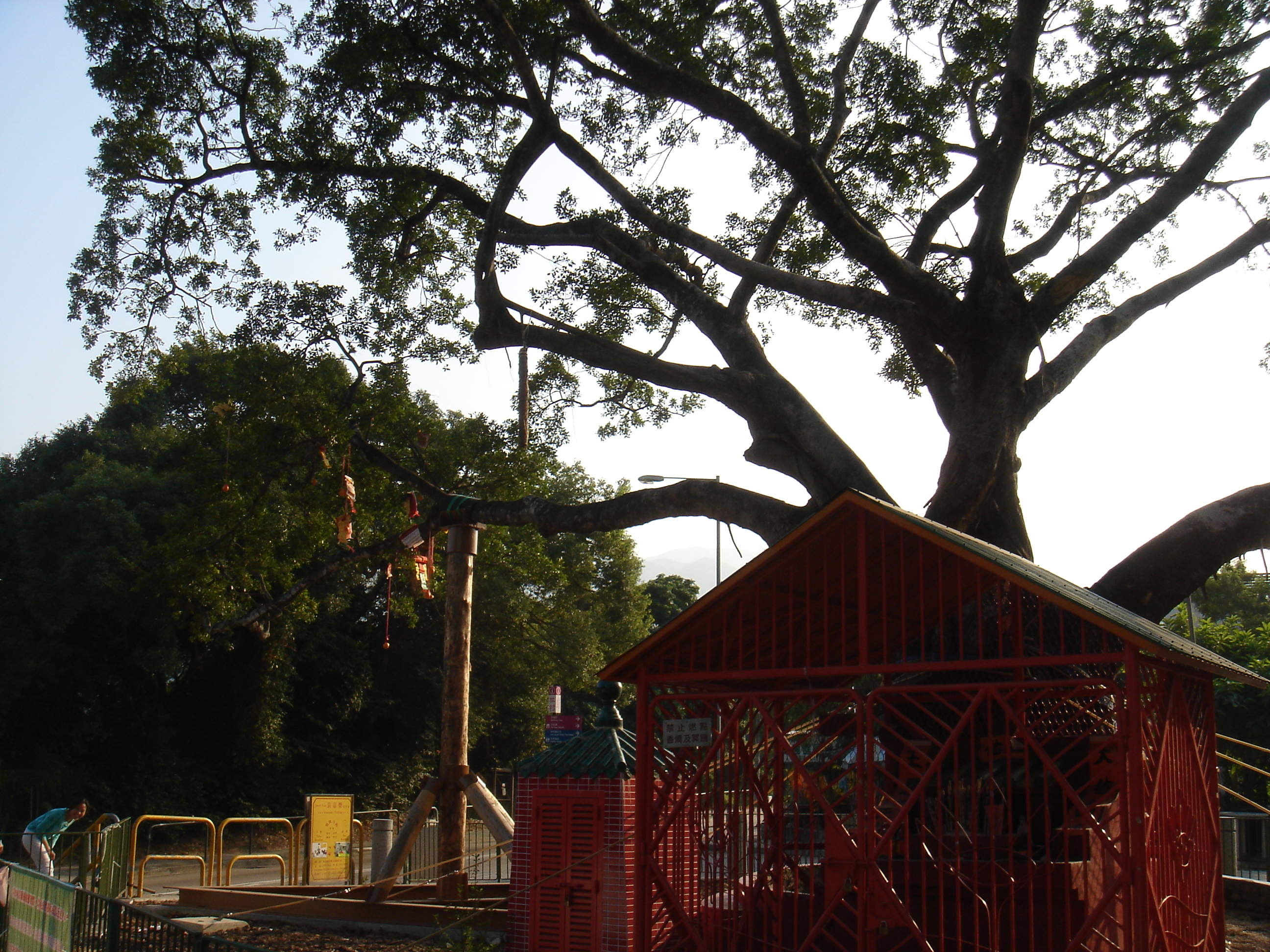 One of the two Lam Tsuen Wishing Trees. Notice that one of the major tree branches has to be held up through artificial means.